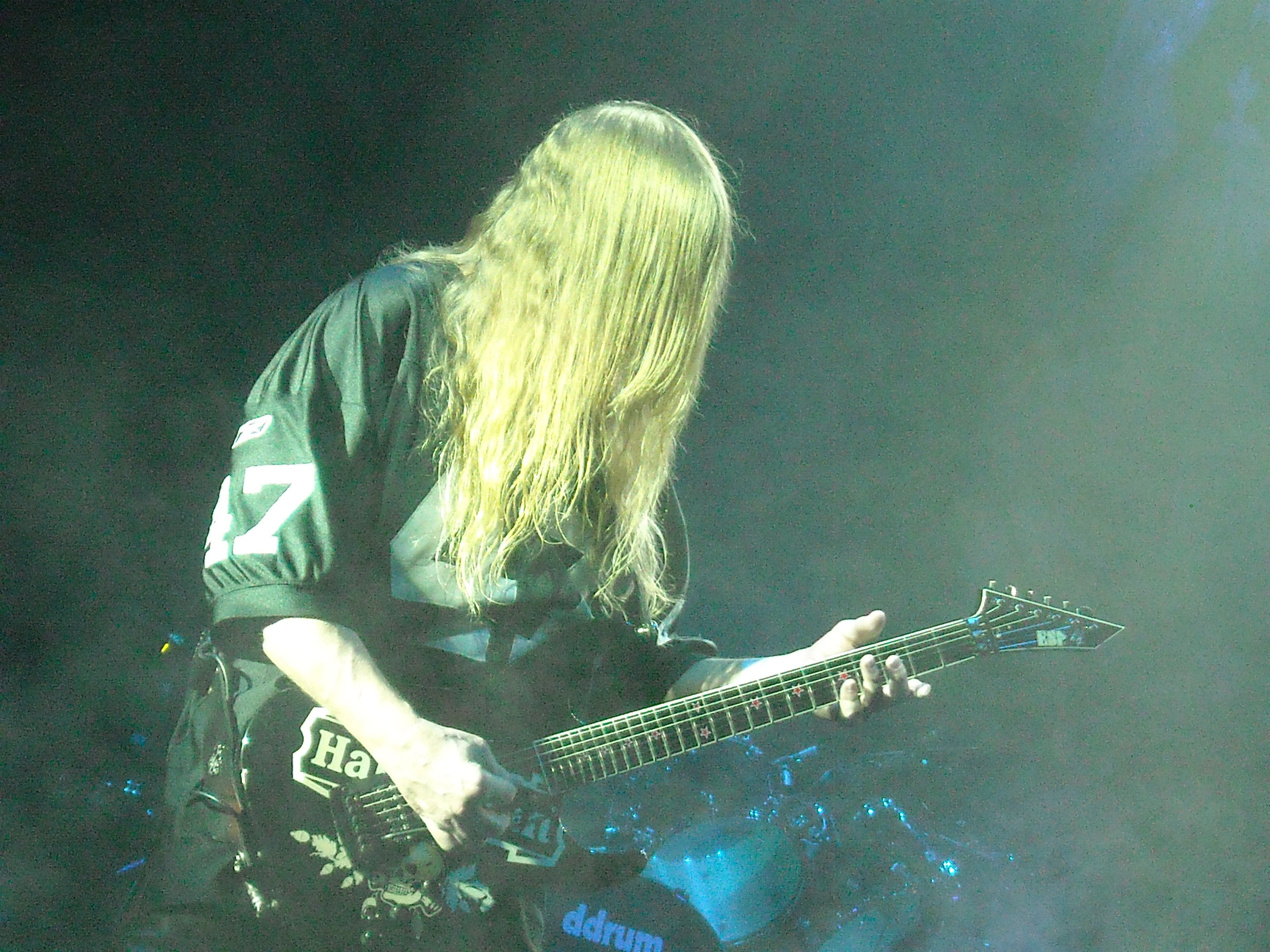 Jeff Hanneman of Slayer performing at the Izod Center in East Rutherford, New Jersey.